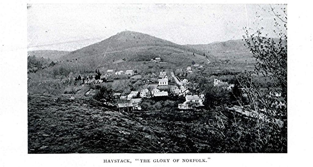 Haystack hill, Norfolk, Connecticut, from Connecticut Quarterly magazine, 1897